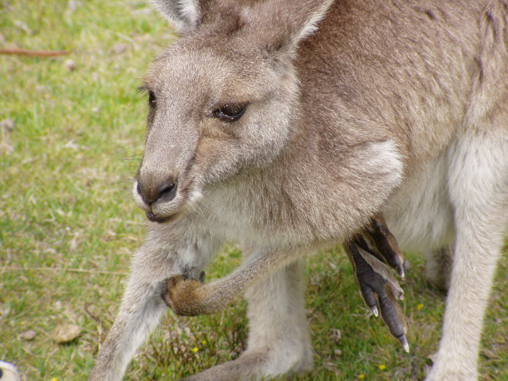 Description: Eastern Grey Kangaroo close-up (Macropus giganteus) Location: Murramarang National Park, South Durras, New South Wales, Australia Date: 2005-09-24 Source: picture taken by Danielle Langlois Licence: Released under GFDL and Creative Commons licenses by the photographer